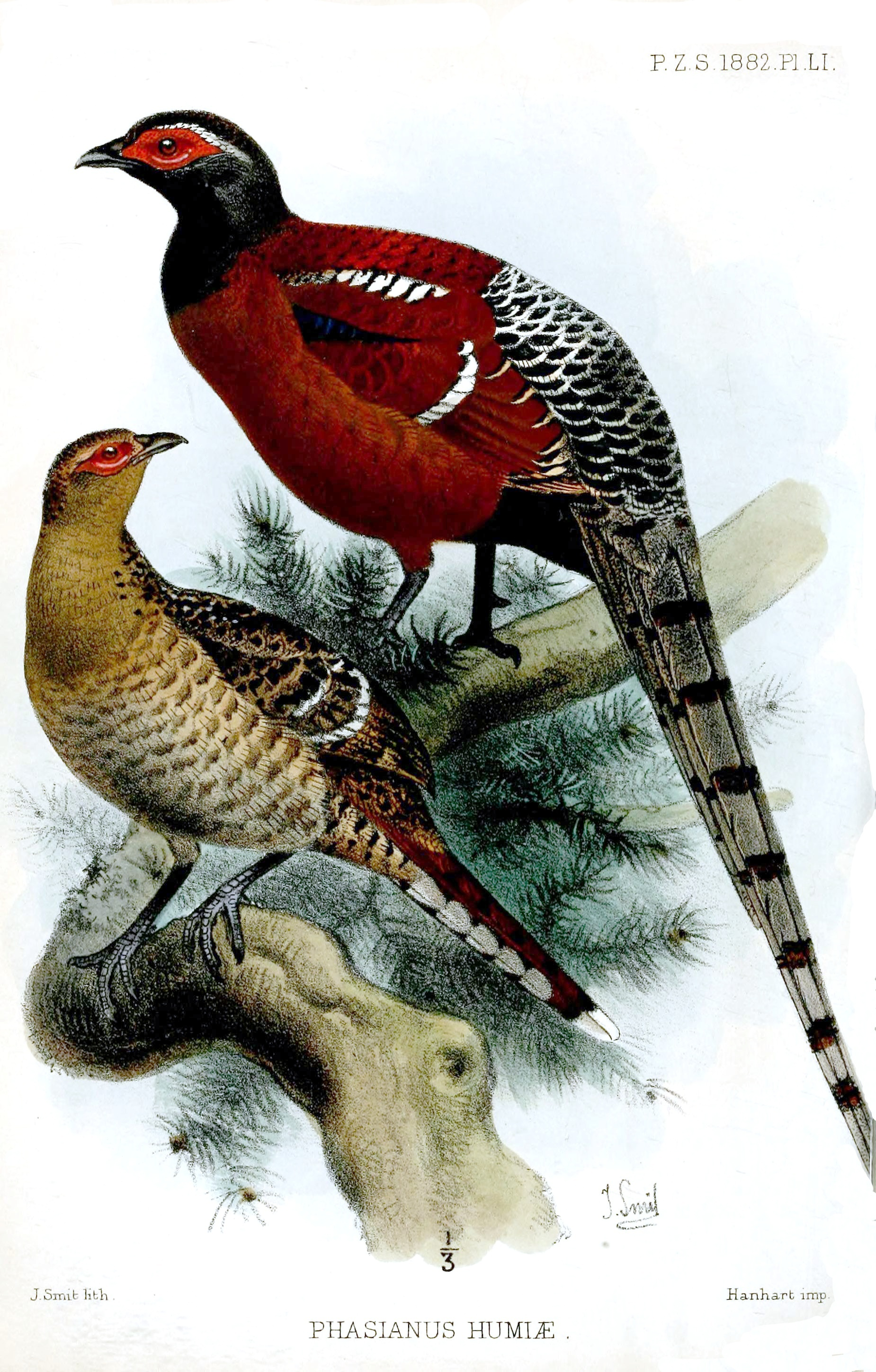 Phasianus humiae (Syrmaticus humiae)